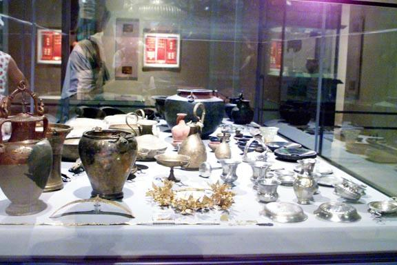 Finds from tombs at Sindos, image from the Archaeological Museum, Thessaloniki, Central Macedonia, Greece